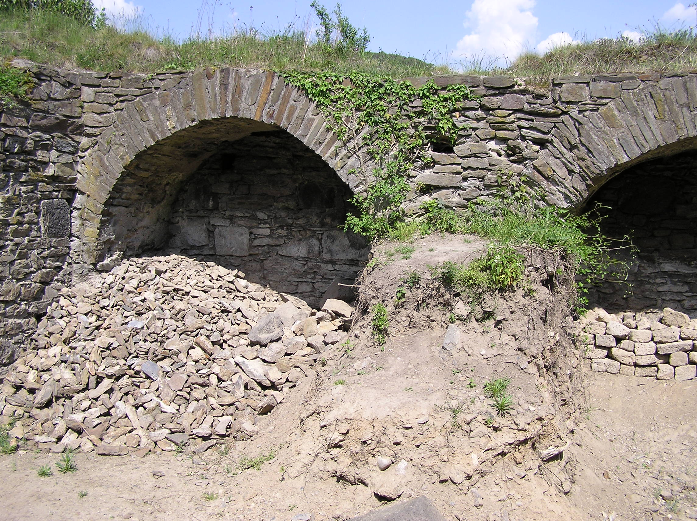 Remains of the wall section along the northern defences of castle Hammerstein on the Rhine, Germany.